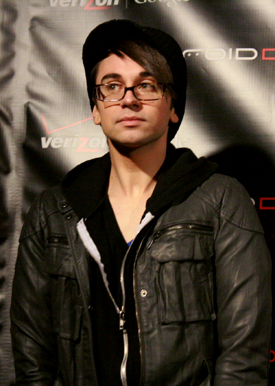 Christian Siriano at the Driod Red Carpet Launch Party